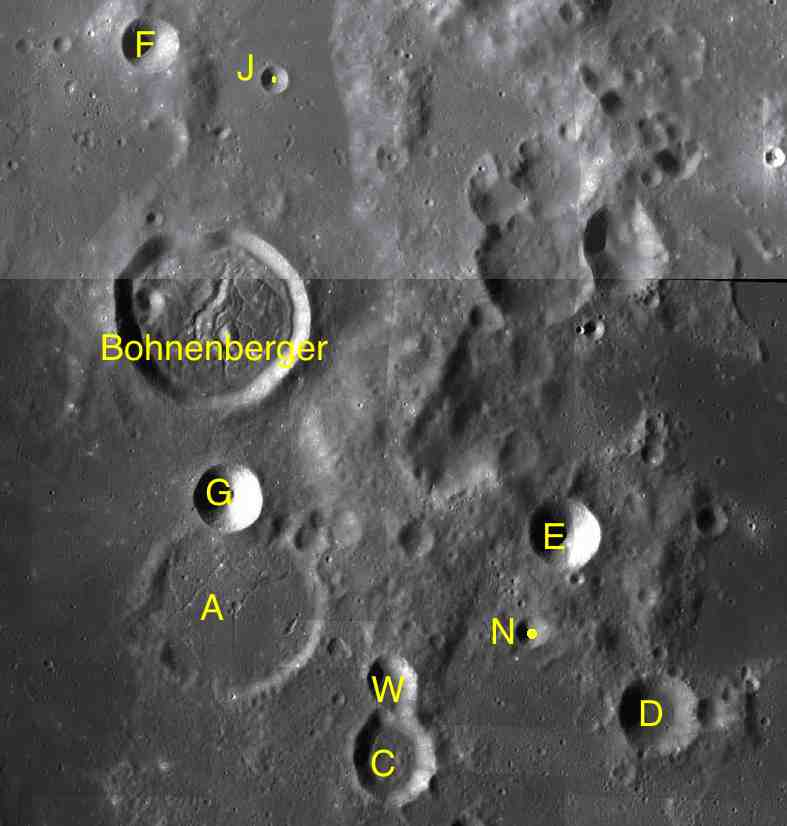 Parts of the charts LAC-79, LAC-97 used for the presentation